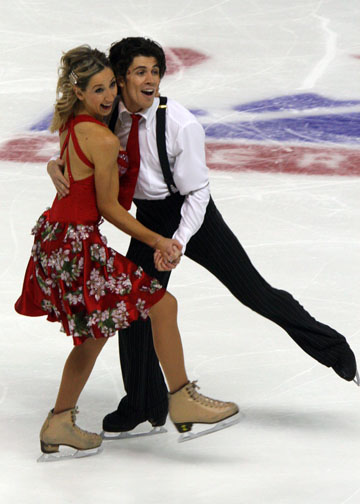 2008 Skate America; Sinead KERR and John KERR; OD-Rhythms of the 1920s, 1930s, and 1940s